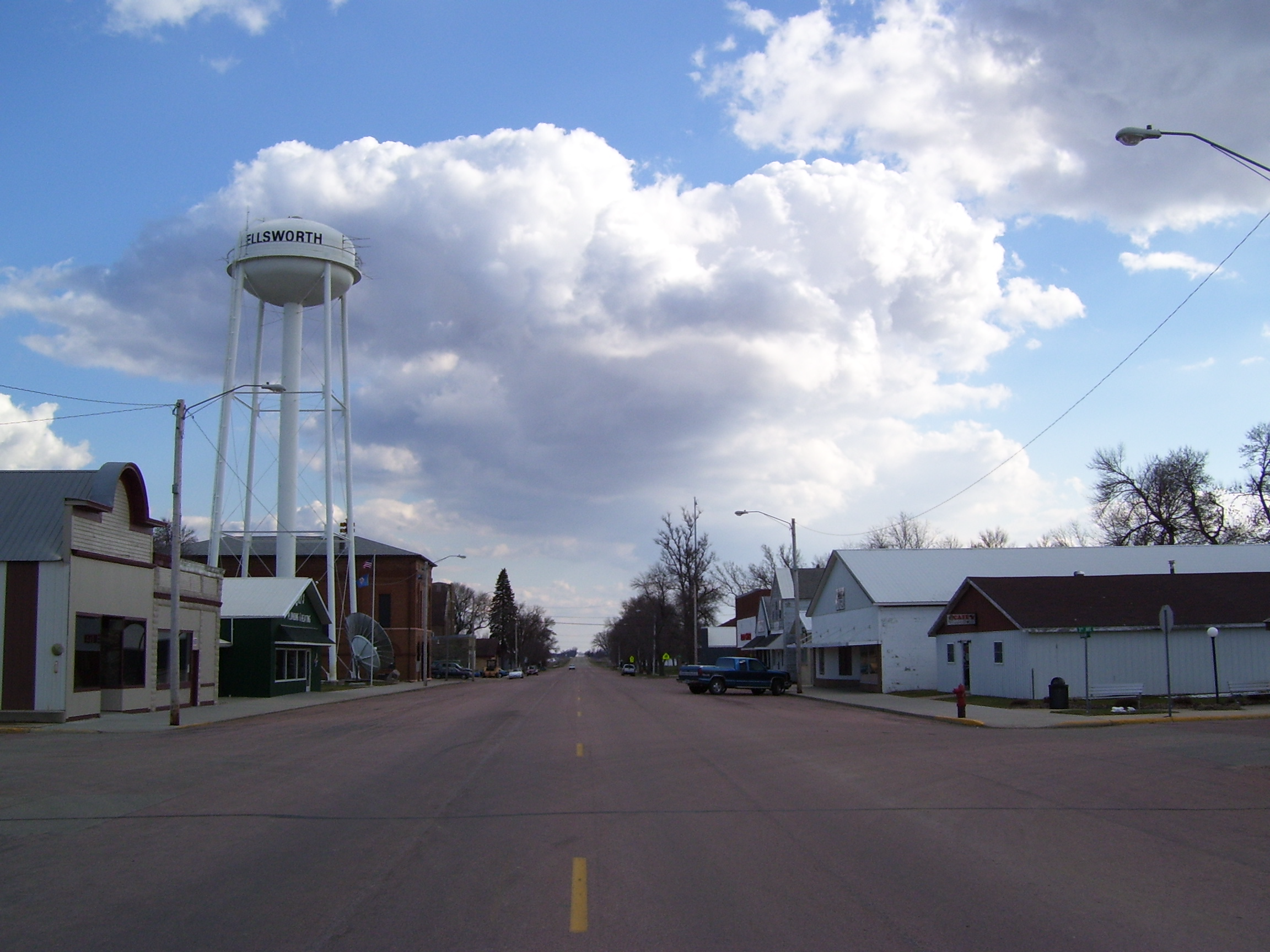 A view of Broadway Street in Ellsworth, Minnesota. My own work.